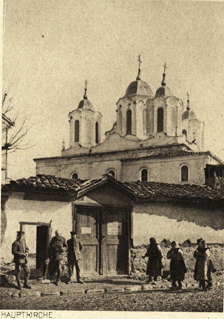 The church of the Transfiguration in Prilep, before 1917